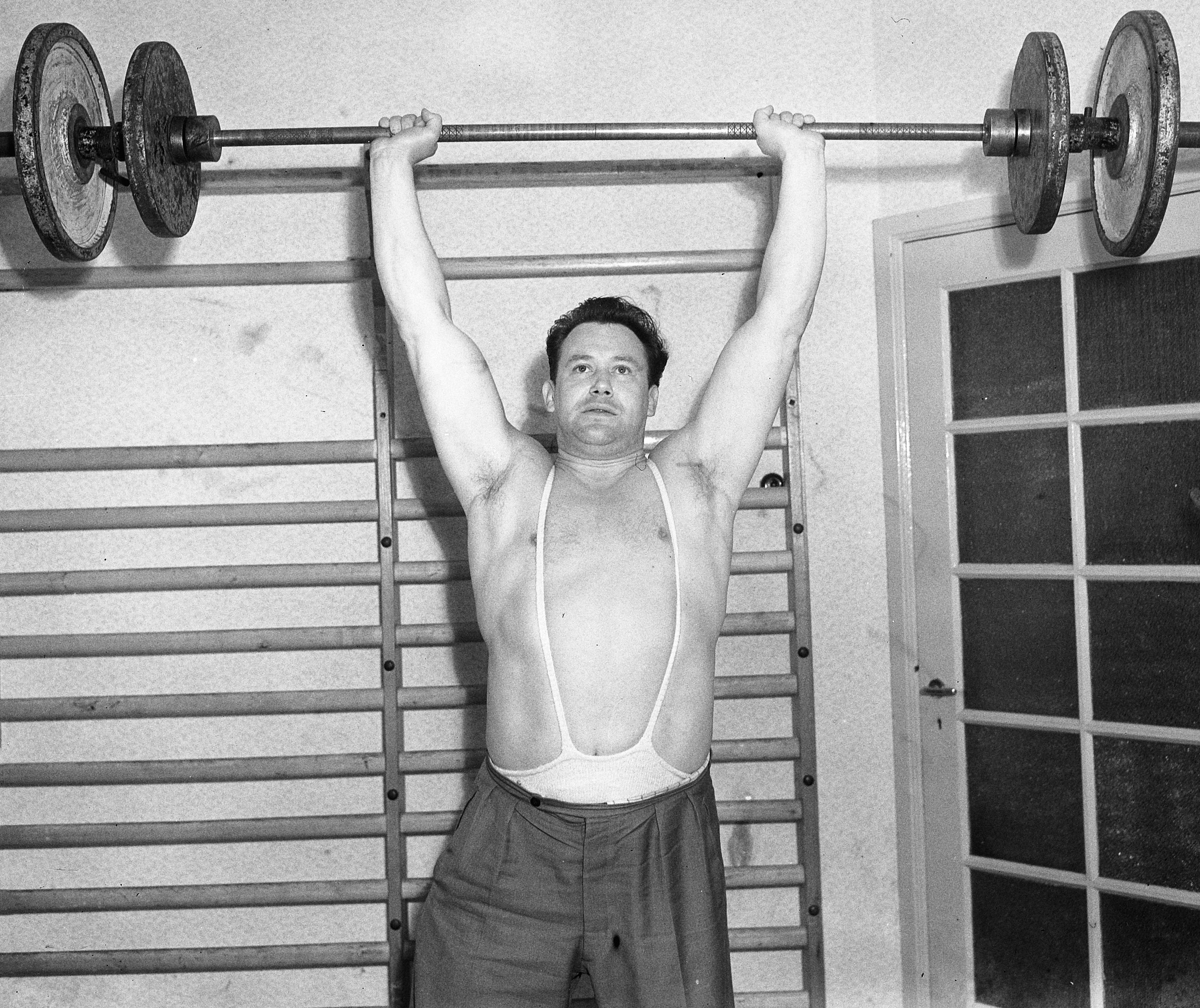 Abraham (Bram) Charité